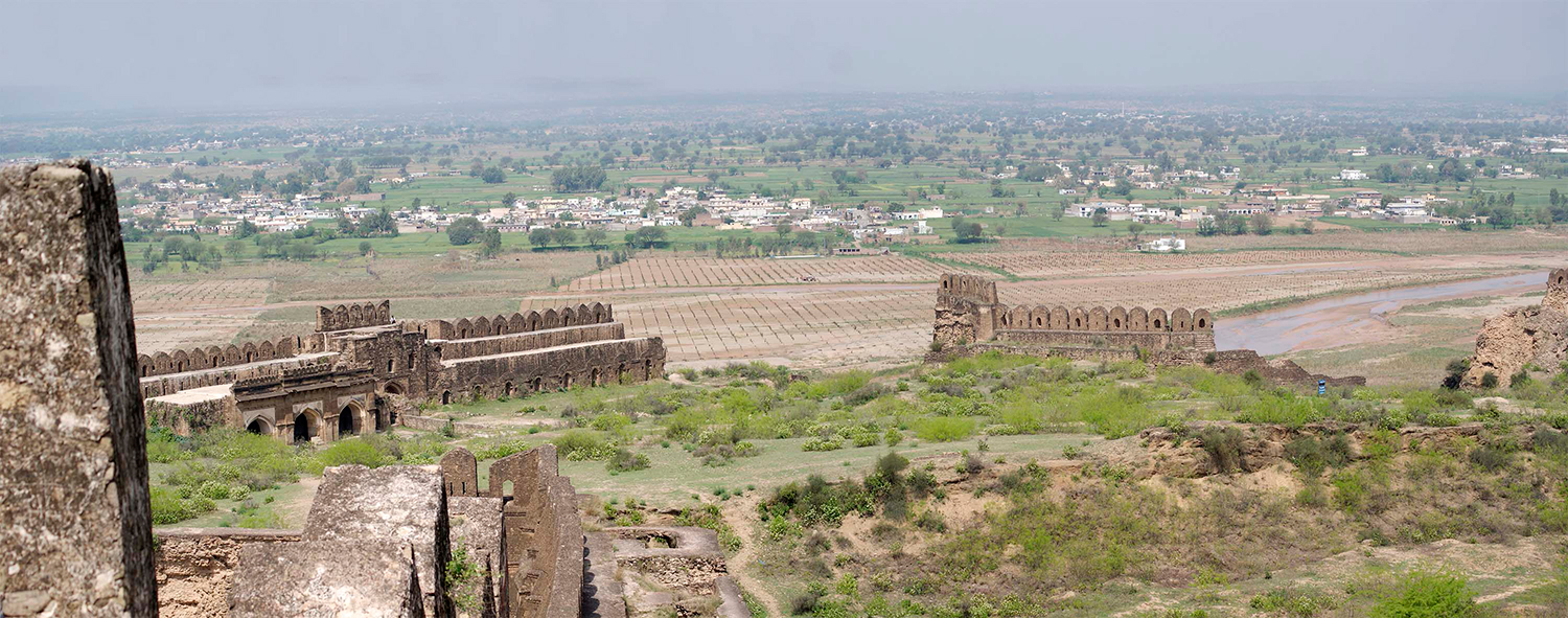 Wall Rohtas Fort Jhelum